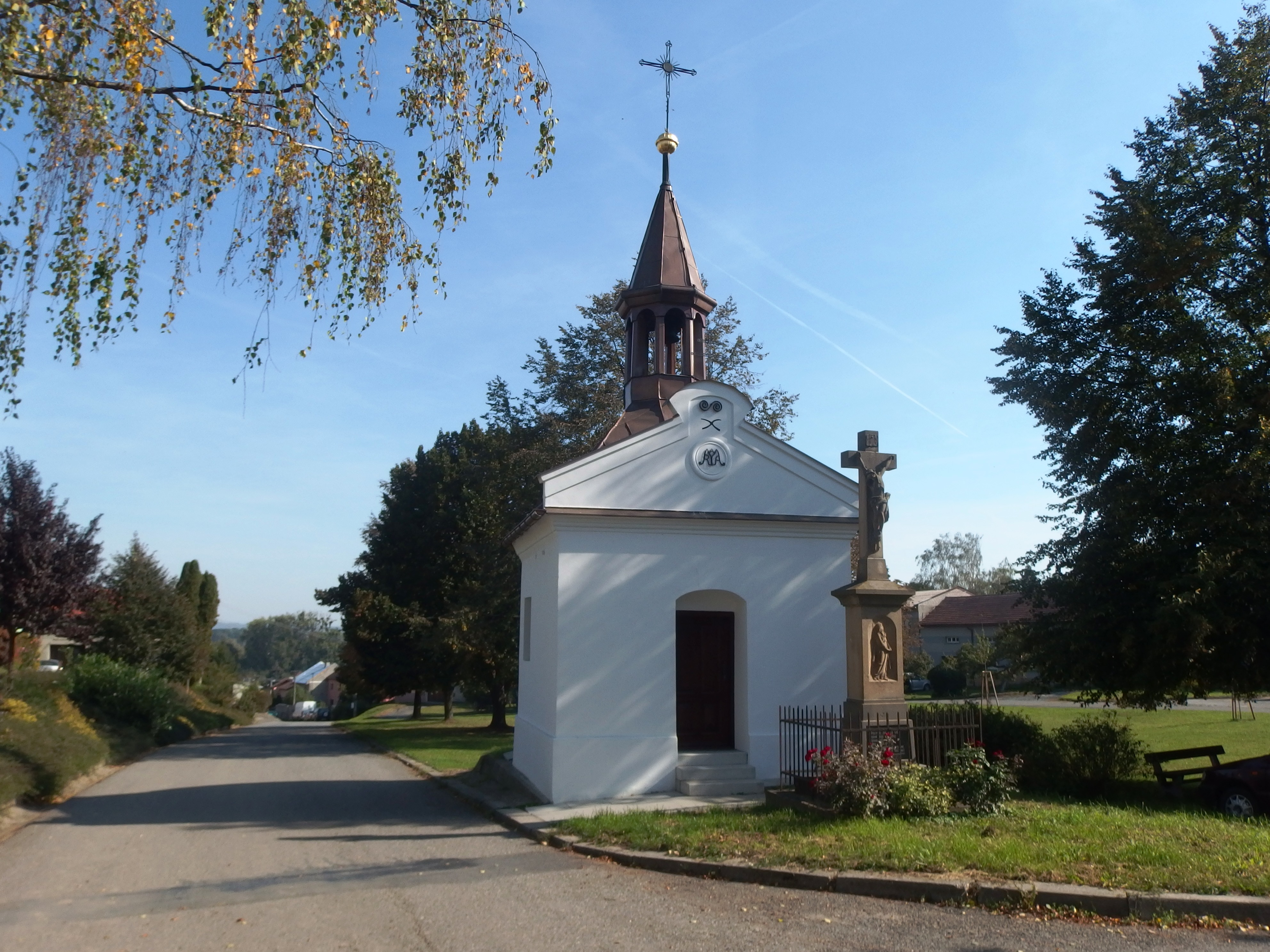 Charváty, Olomouc District, Czech Republic, part Drahlov.